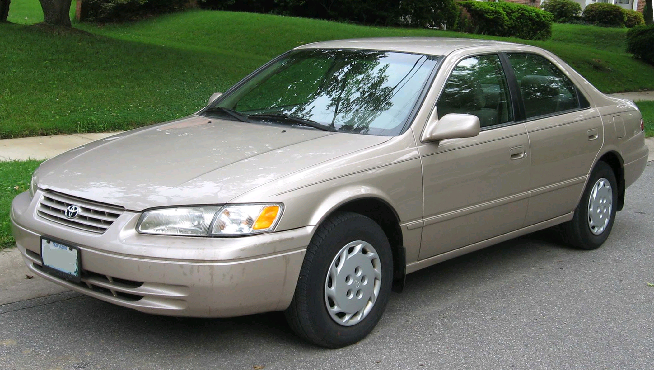 1997-1999 Toyota Camry photographed in USA.